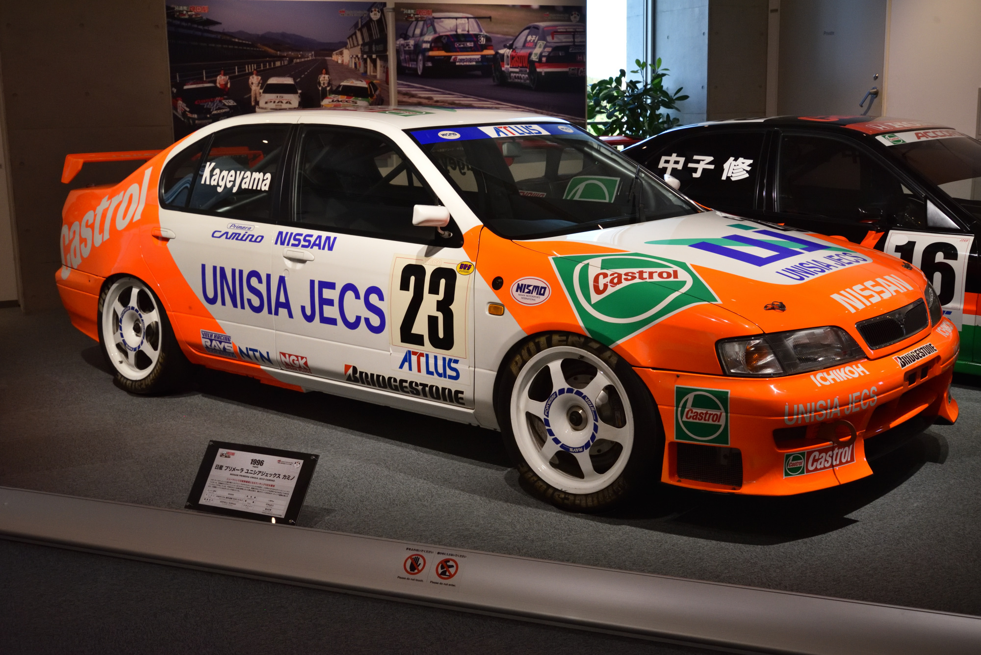 NISSAN PRIMERA UNISIA JECS CAMINO (Masahiko Kageyama, 1996 JTCC)